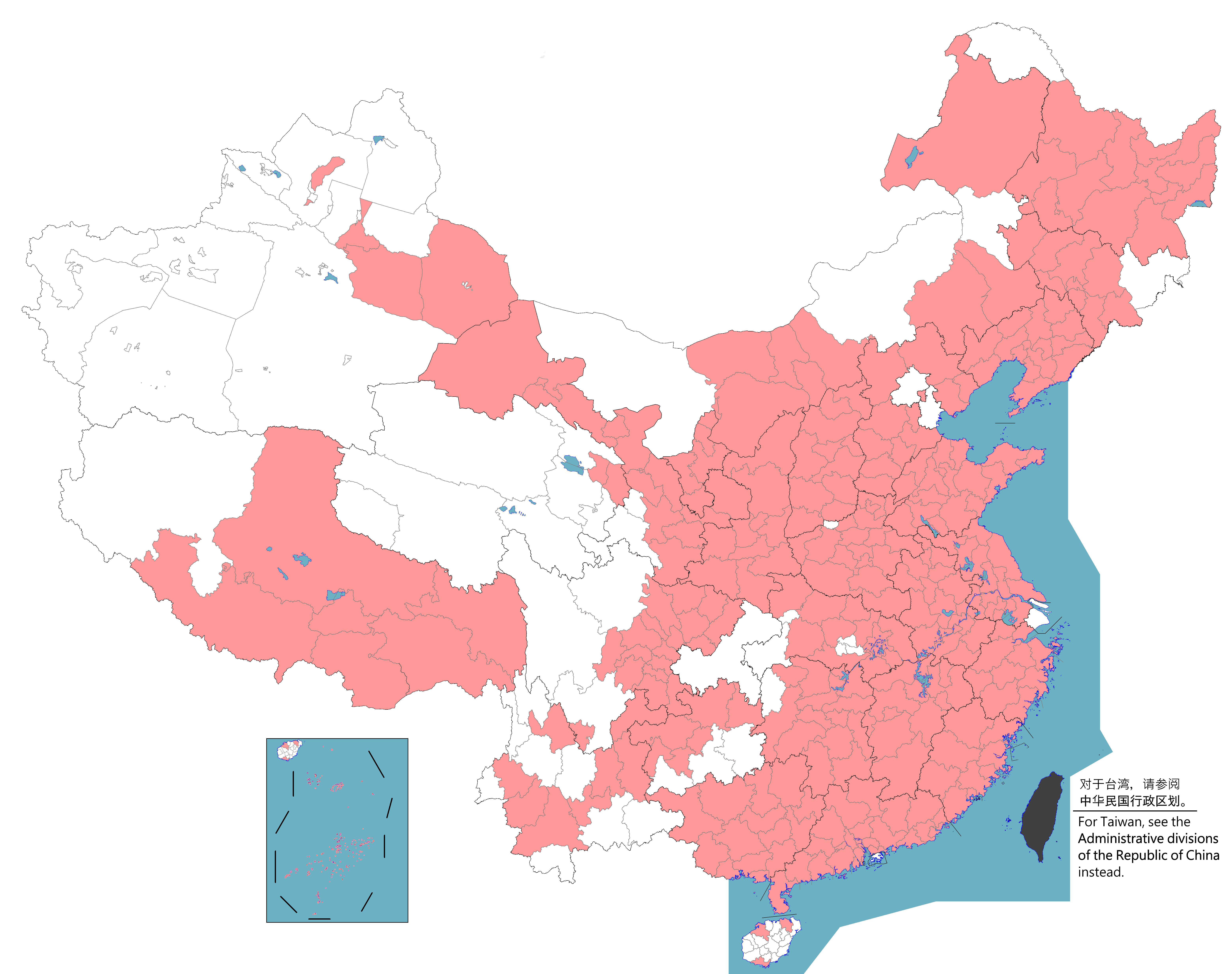 Map of China's prefectural-level cities